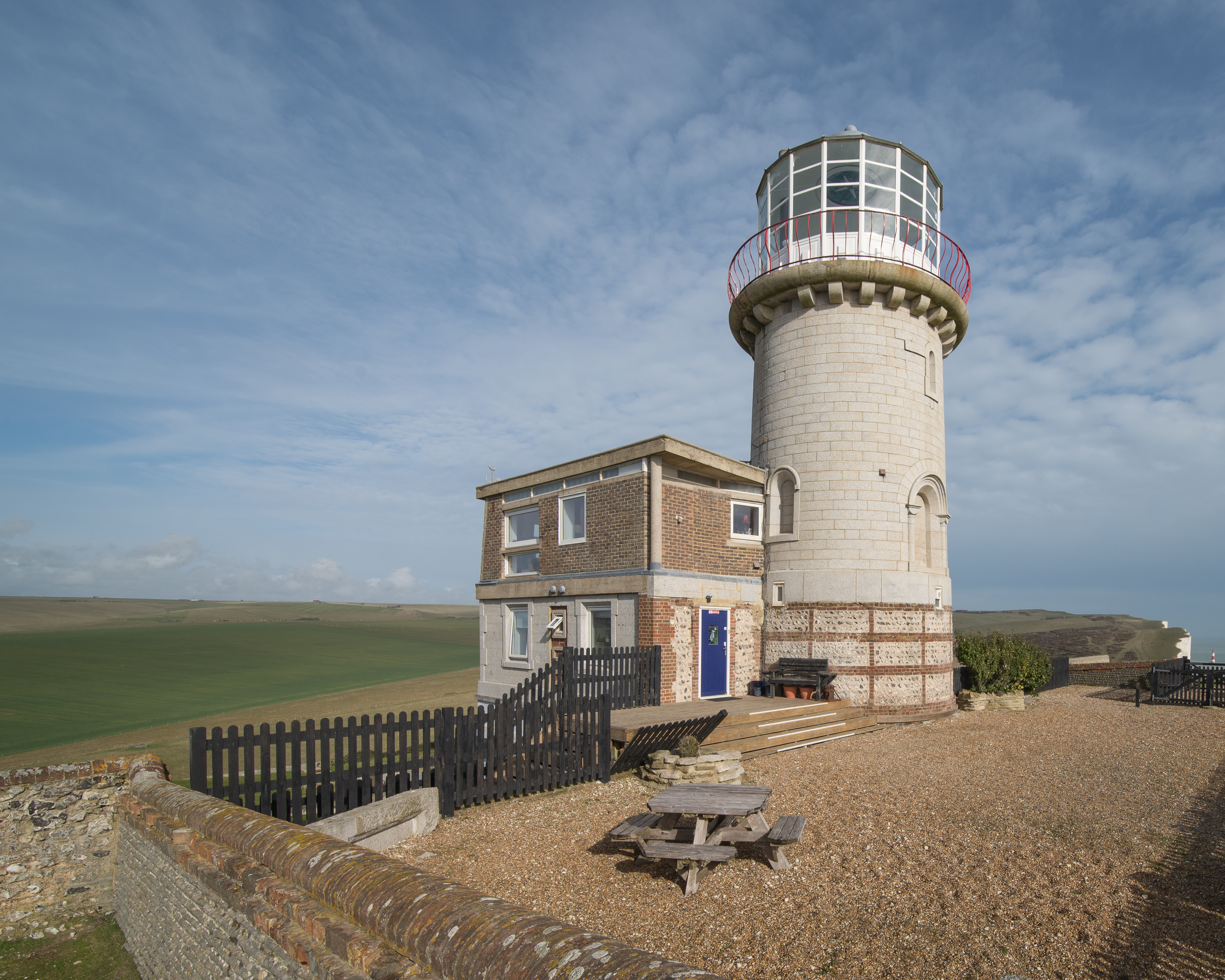 Belle Tout lighthouse in East Sussex, England. In the background is Beachy Head and the new lighthouse Beachy Head Lighthouse..